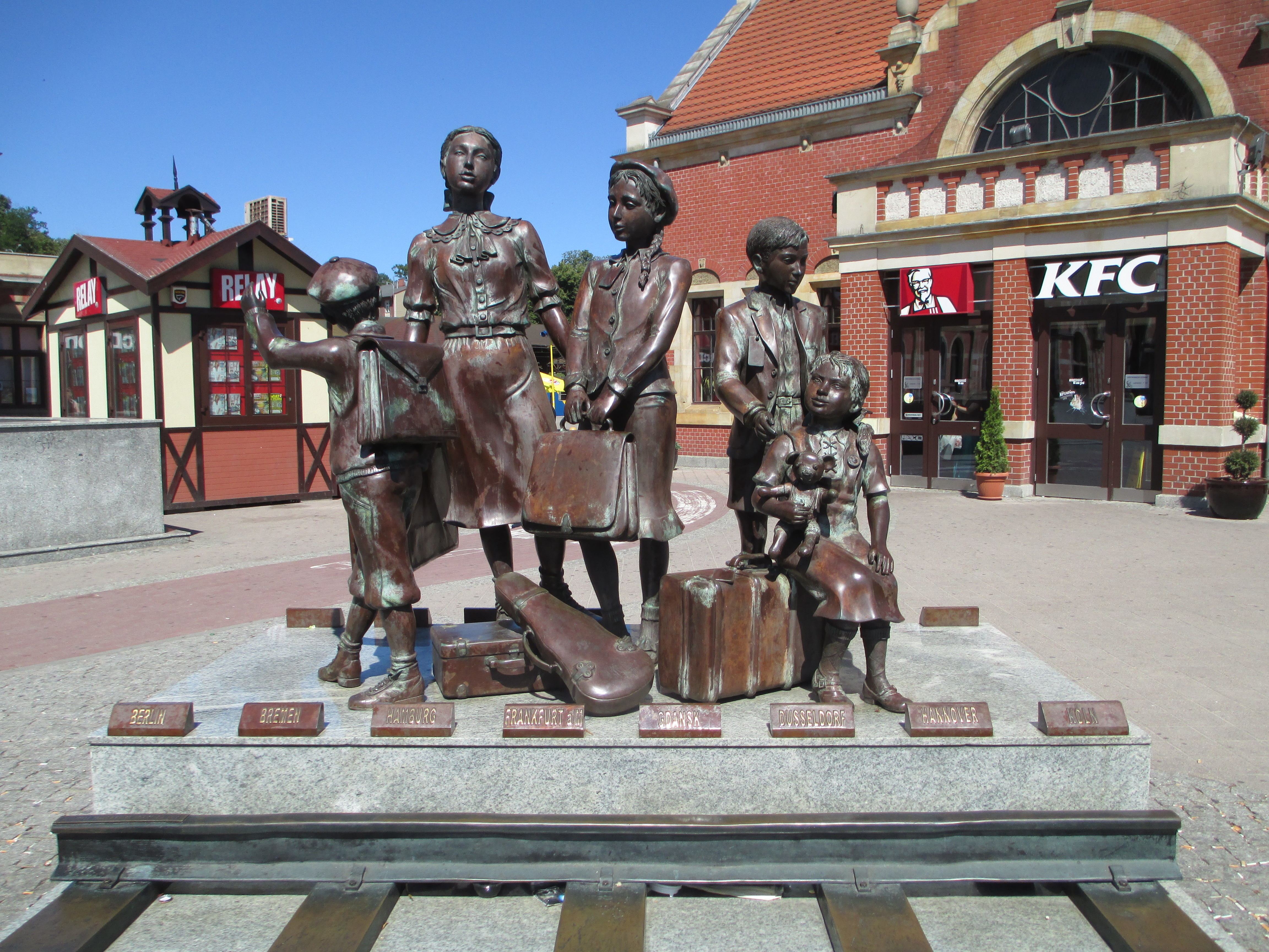 kindertransport memorial in gdansk train station